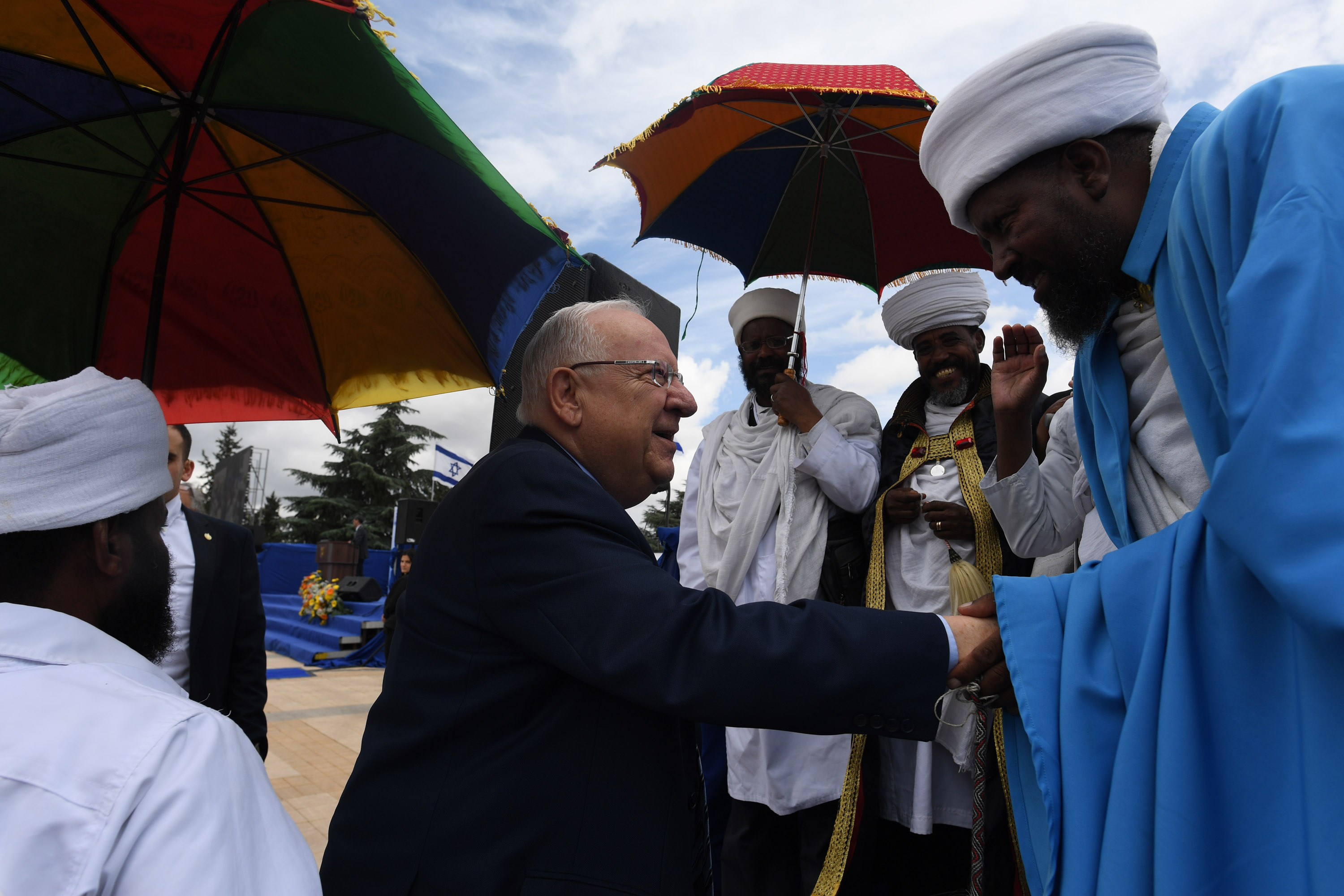 טקס אזכרה ממלכתי ליהודי אתיופיה שניספו בדרכם לישראל בהר הרצל - נשיא מדינת ישראל ראובן רובי ריבלין